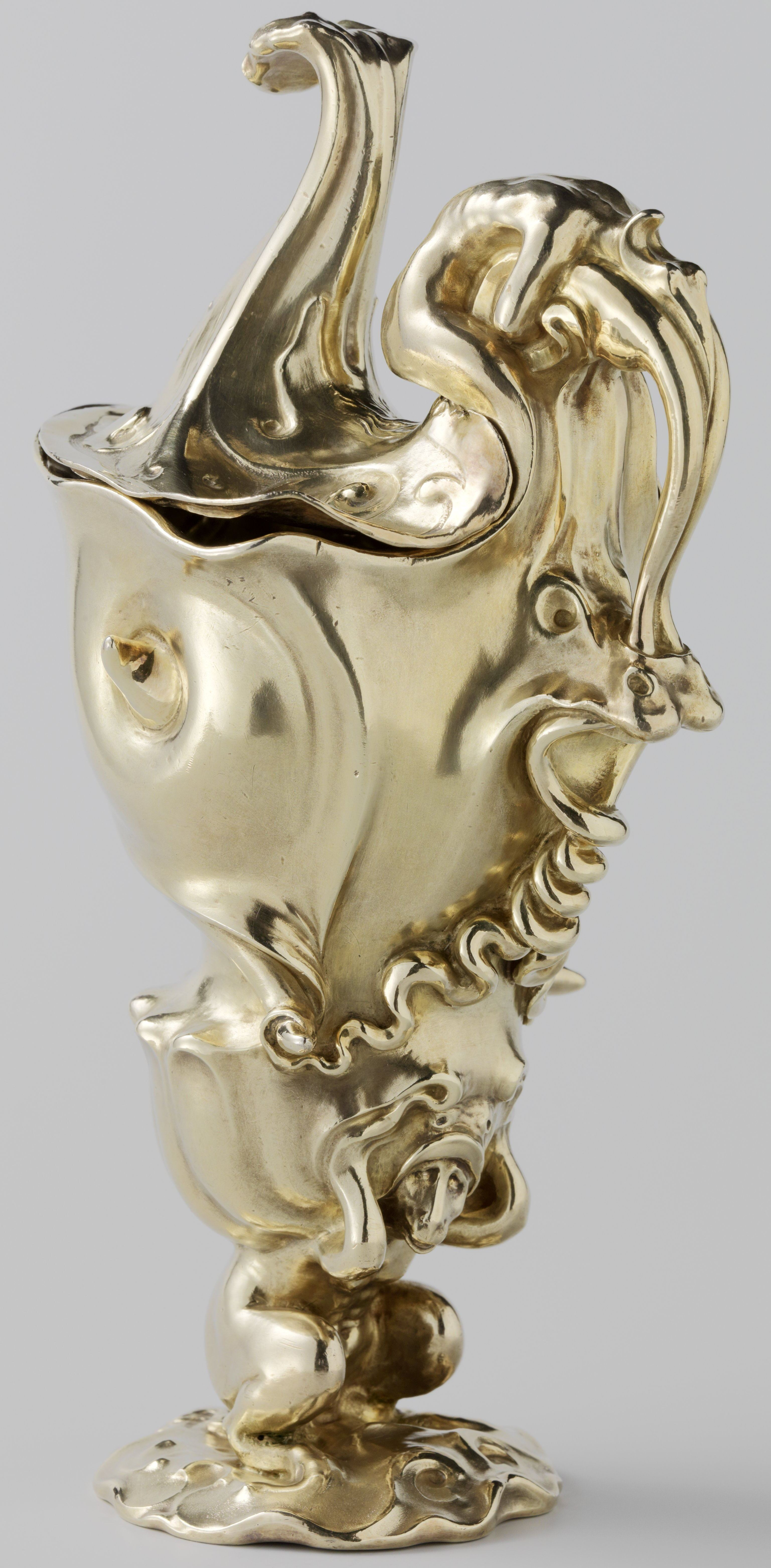 This image is available from the Netherlands Institute for Art Historyunder digital ID 246503. This tag does not indicate the copyright status of the attached work. A normal copyright tag is still required. See Commons:Licensing.